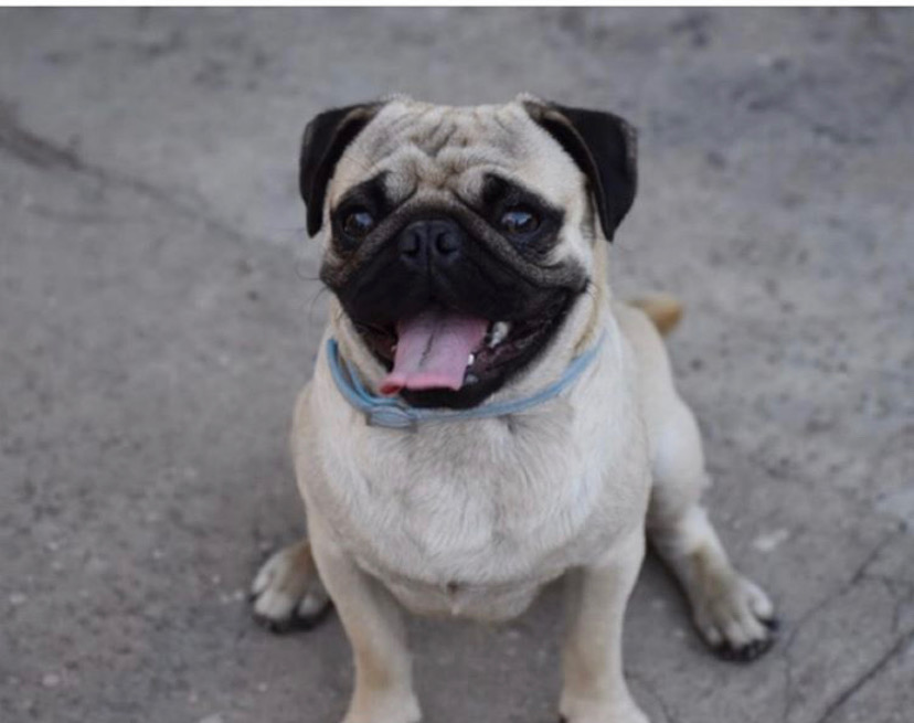 This is just a picture of a dog.